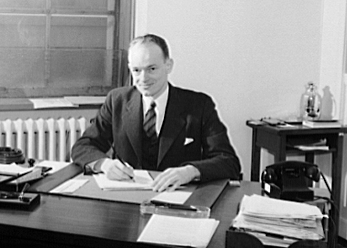 Portrait of John Sloan Dickey, Chief of the Planning Division and Special Assistant to Nelson A. Rockefeller, Office of Coordinator of Commercial and Cultural Relations between the American Republics (from July 1941 named the Office of the Coordinator of Inter-American Affairs)